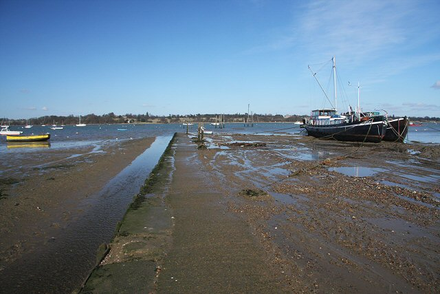 Pin Mill Hard and the Grindle The Grindle is the name of the stream which runs alongside the Hard. The stream is periodically dug out by members of the local sailing club as it provides useful access to the upper reaches of the Hard by dinghy.